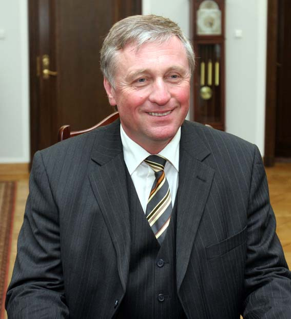 Prime minister of the Czech Republic Mirek Topolánek